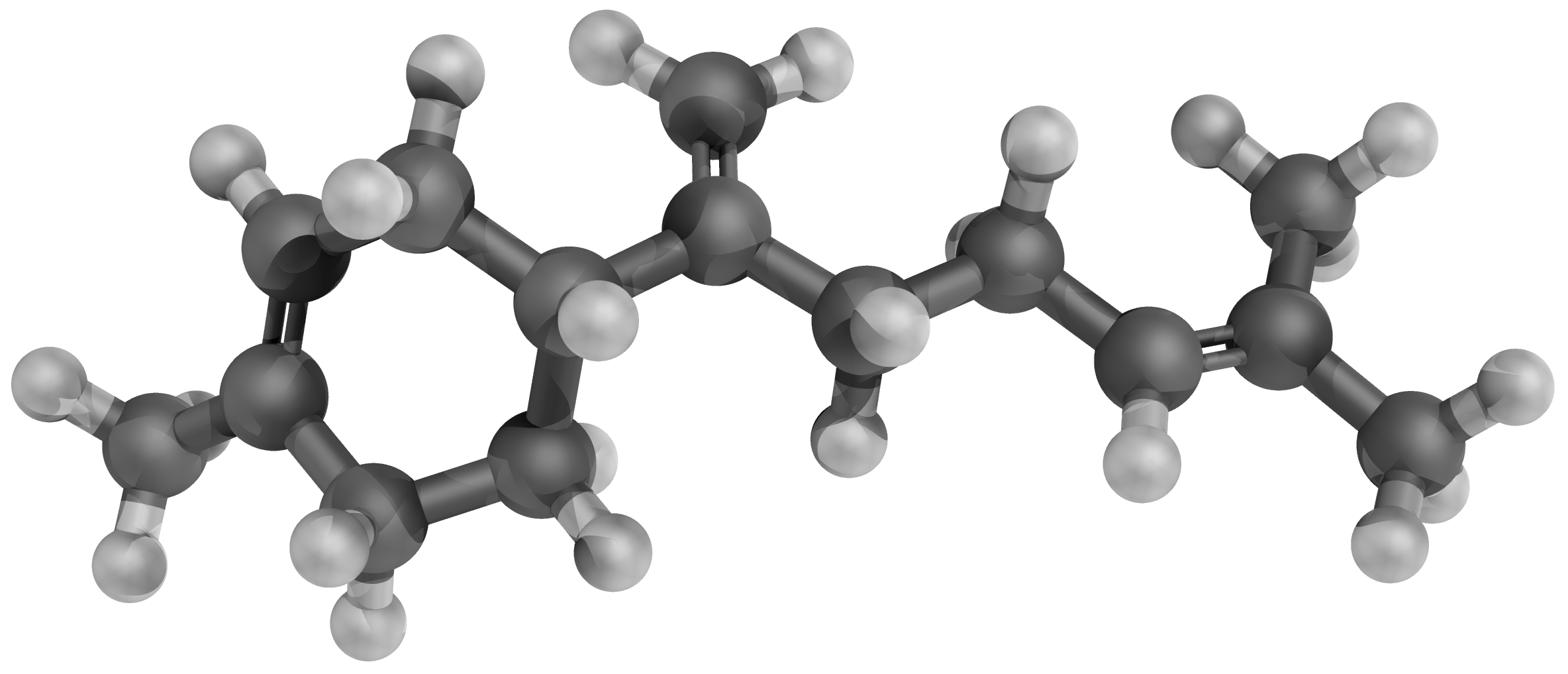 3D-model of Bisabolene (theoretical coordinates).